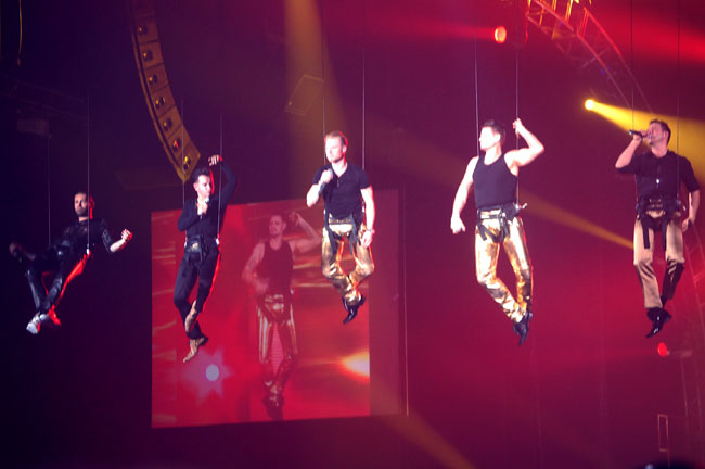 Boyzone at Wembley Stadium.